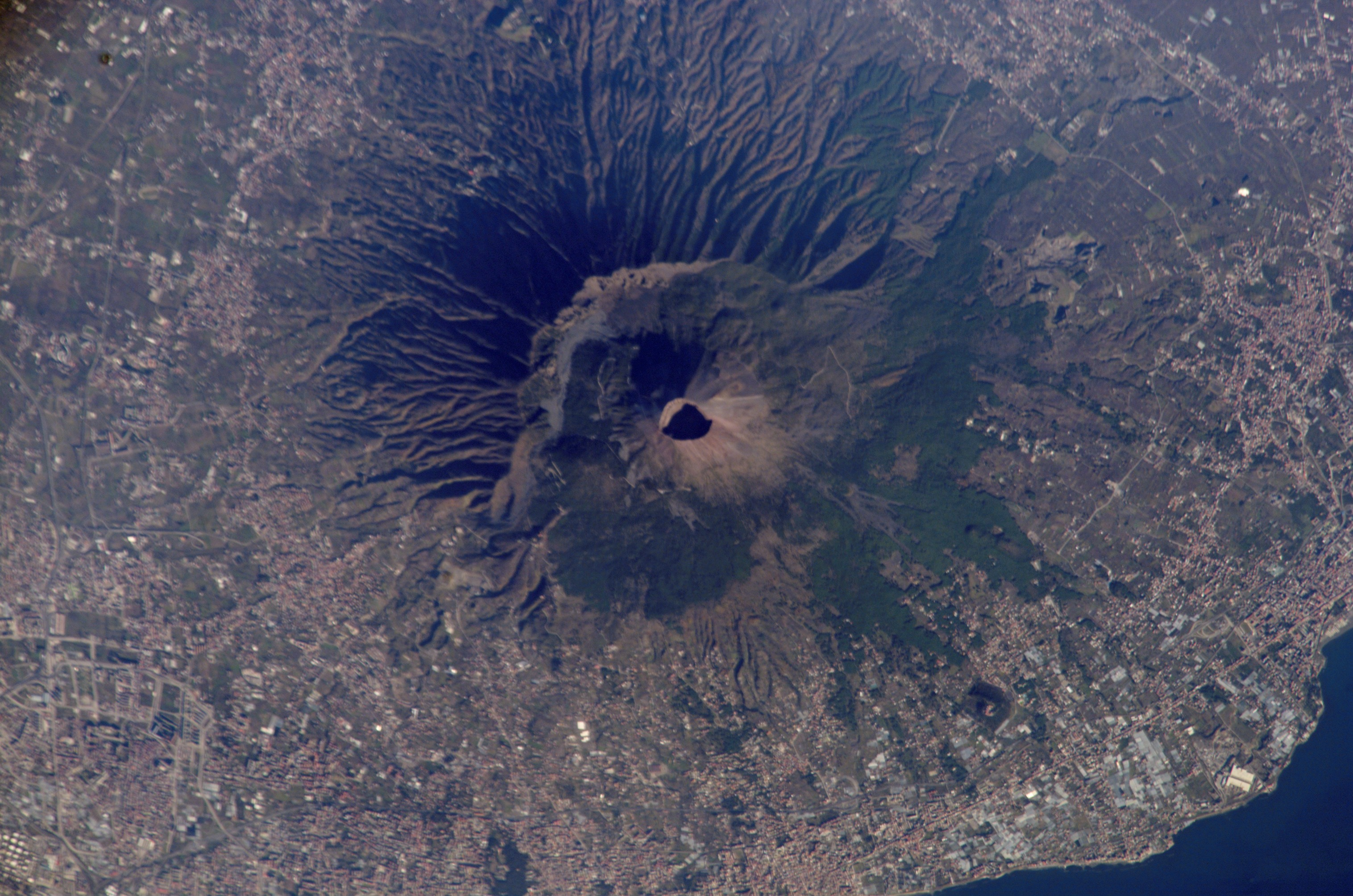 Vesuvius Volcano